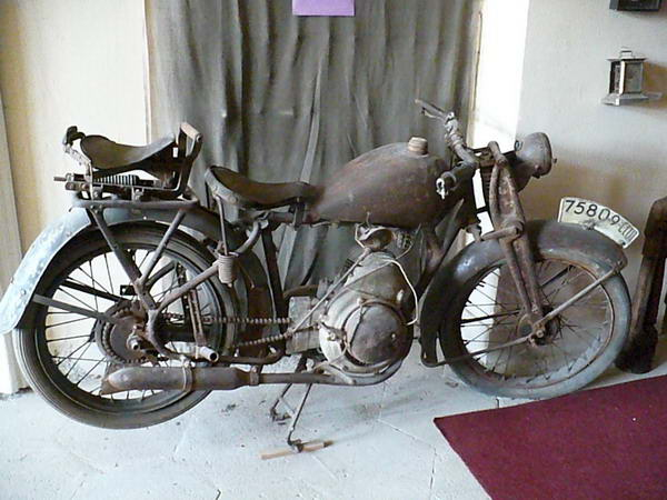 Motorcycle NSU used by communists